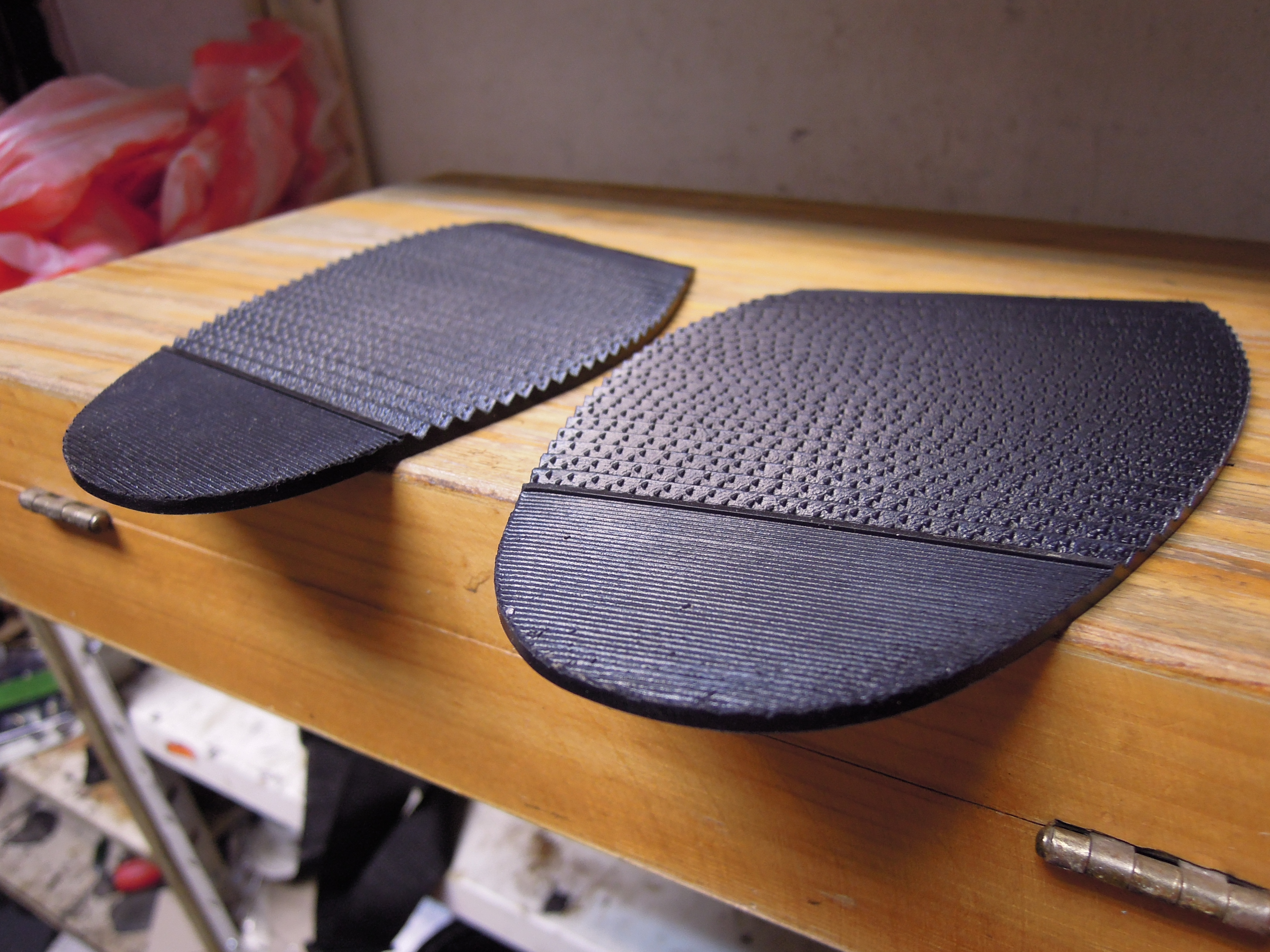 Shoe soles, black.